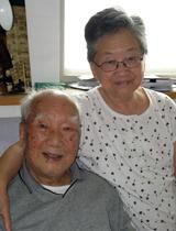 Li Pu and wife